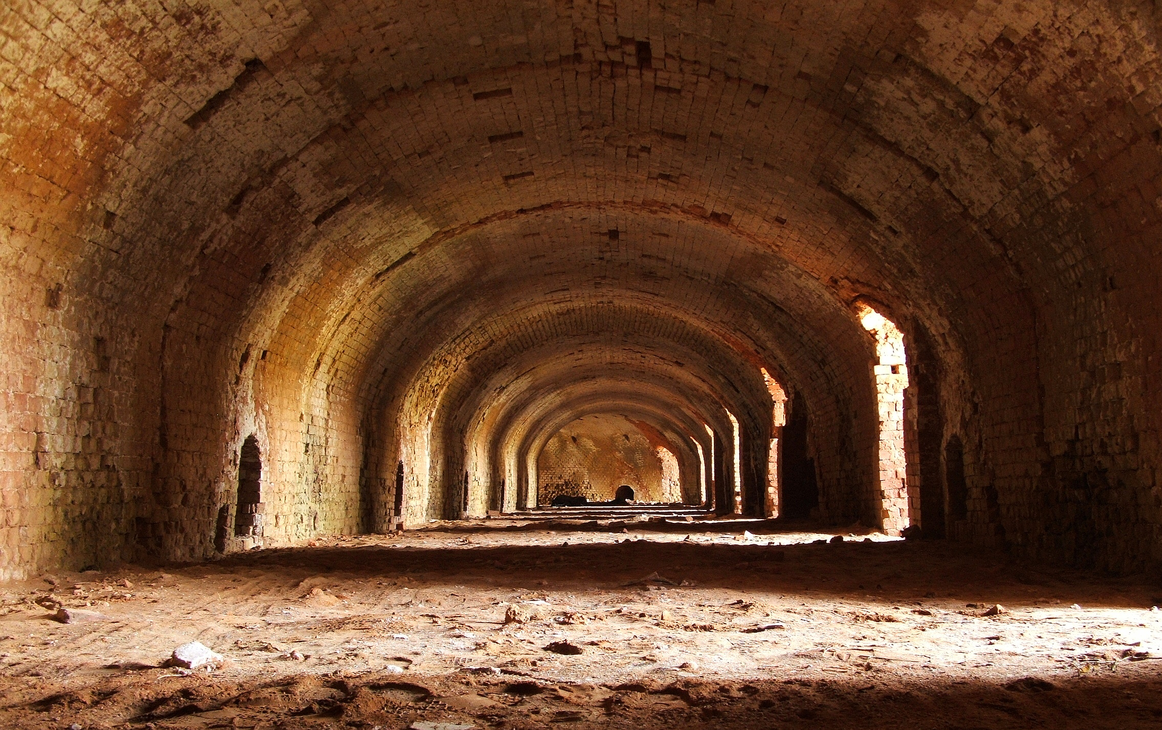 Inside the ring kiln of the closed Zsoldos brick factory, Szentes, Hungary